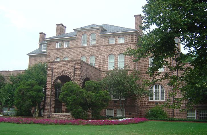 Pic of Holladay Hall at North Carolina State University, taken by Seth Anthony on July 10, 2004.